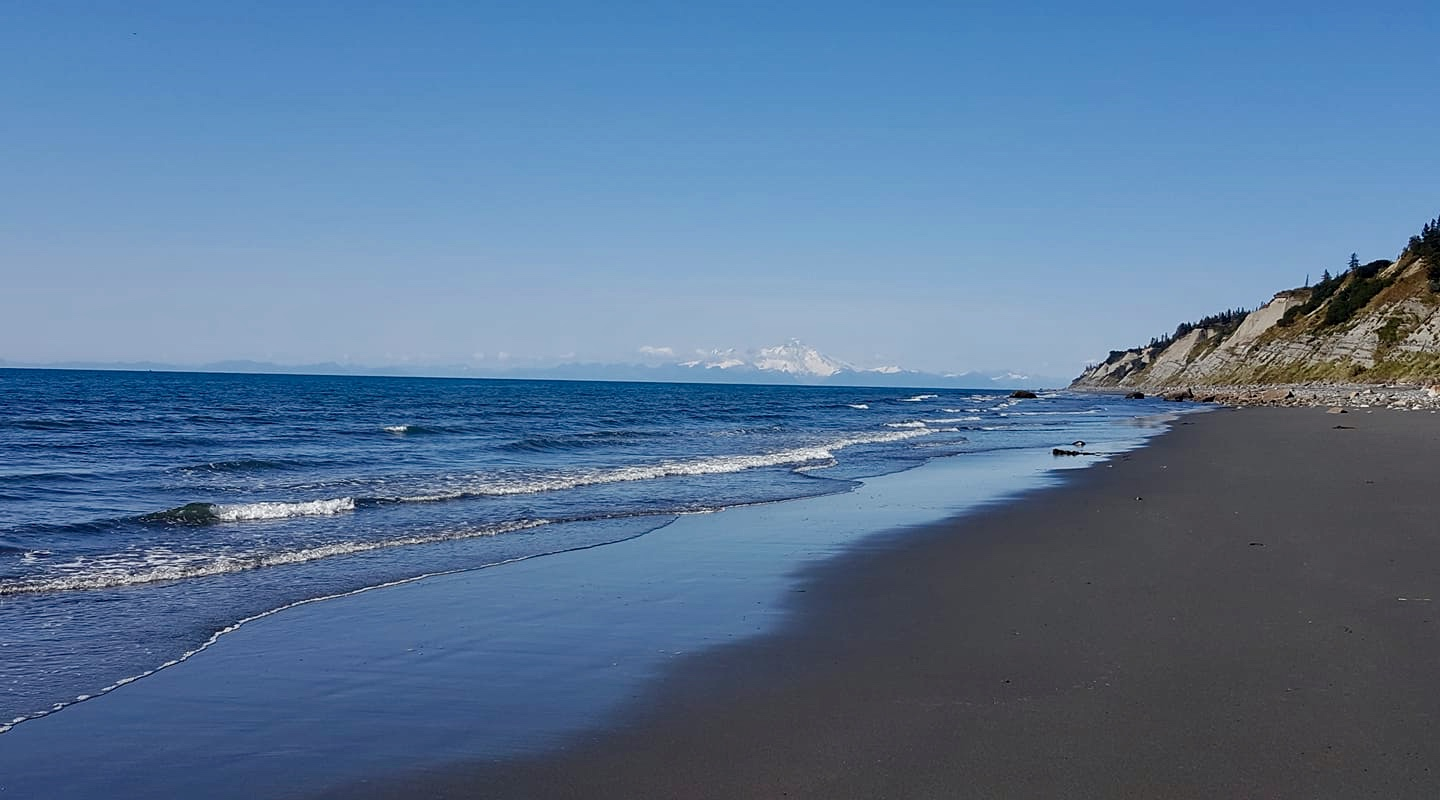 The mouth of Kachemak Bay where it meets Cook Inlet, Iliamna volcano is visible in the distance